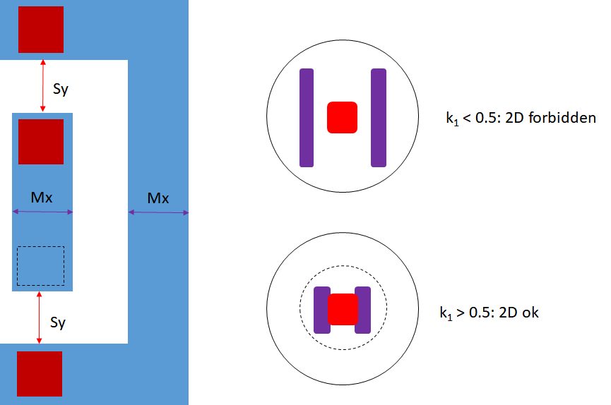 Left: Example of a 2D pattern with critical dimensions in both x (Mx) and y (Sy). Right: Different illumination shapes within the pupil (represented by the outer circle). One dimension requires a different illumination from the other due to different pitches in x and y. For k1 0.5, they may overlap, allowing a conventional illumination shape (indicated by the dotted circle) to be used.